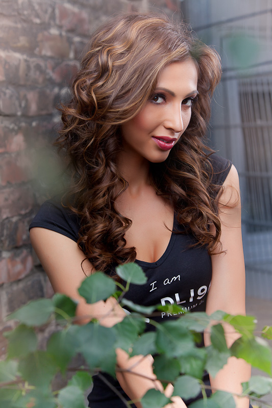 German beauty queen, represented Germany during Miss Universe 2011